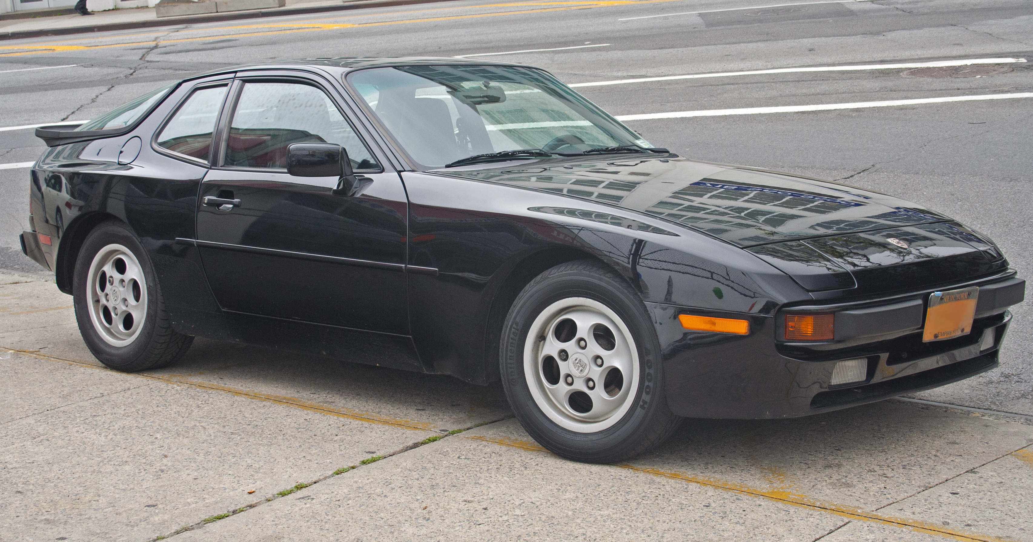 1989 Porsche 944, the only model year in which the base 944 received the 2.7 litre four. This car has ABS and climate control and whatnot (but no airbags), and cost $33,245 when new.